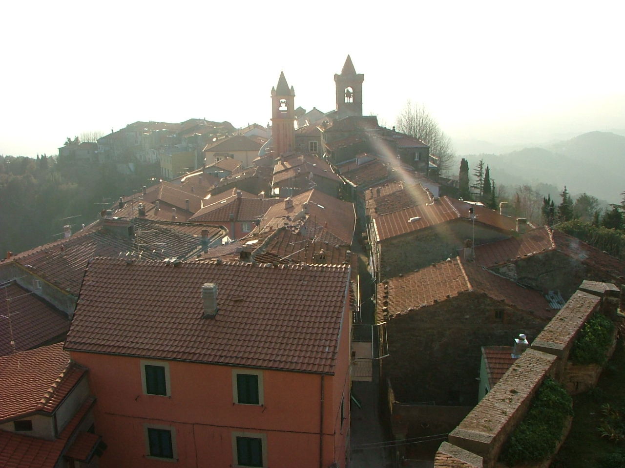 A view of Fosdinovo, a town in the province of Massa-Carrara